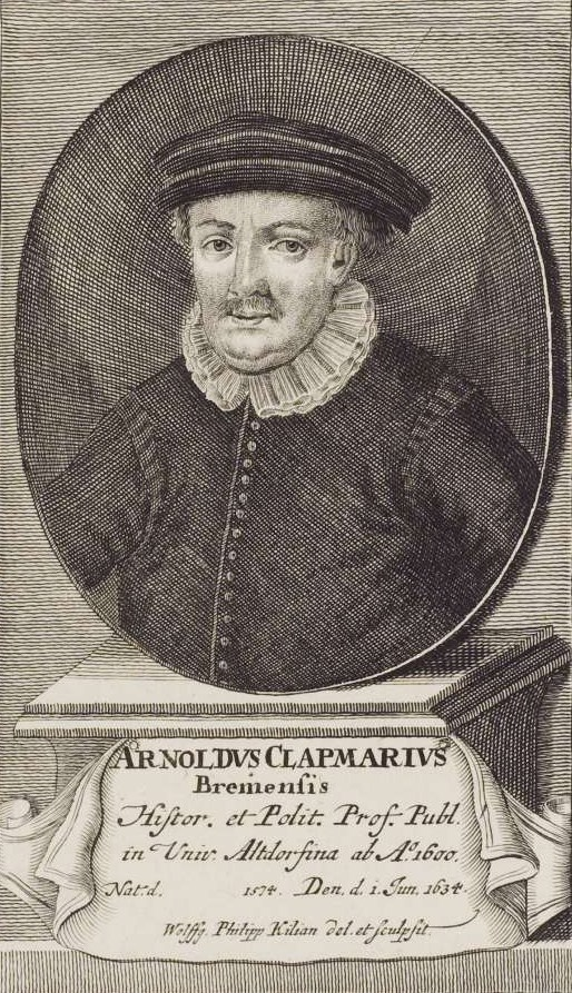 Portrait of Arnoldus Clapmarius (1574–1604), German jurist.